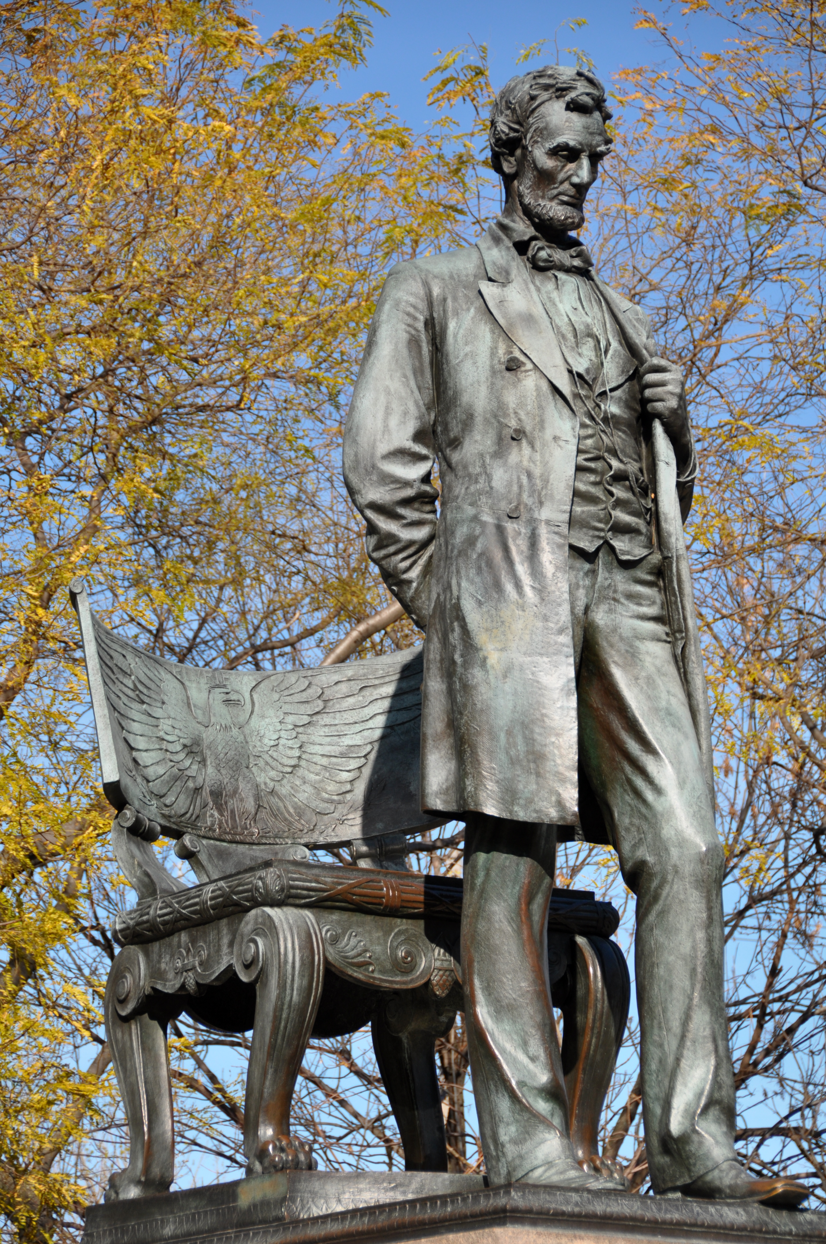 A photo of the Statue of Abraham Lincoln in Lincoln Park Chicago, Illinois. The photo was taken November 5, 2011